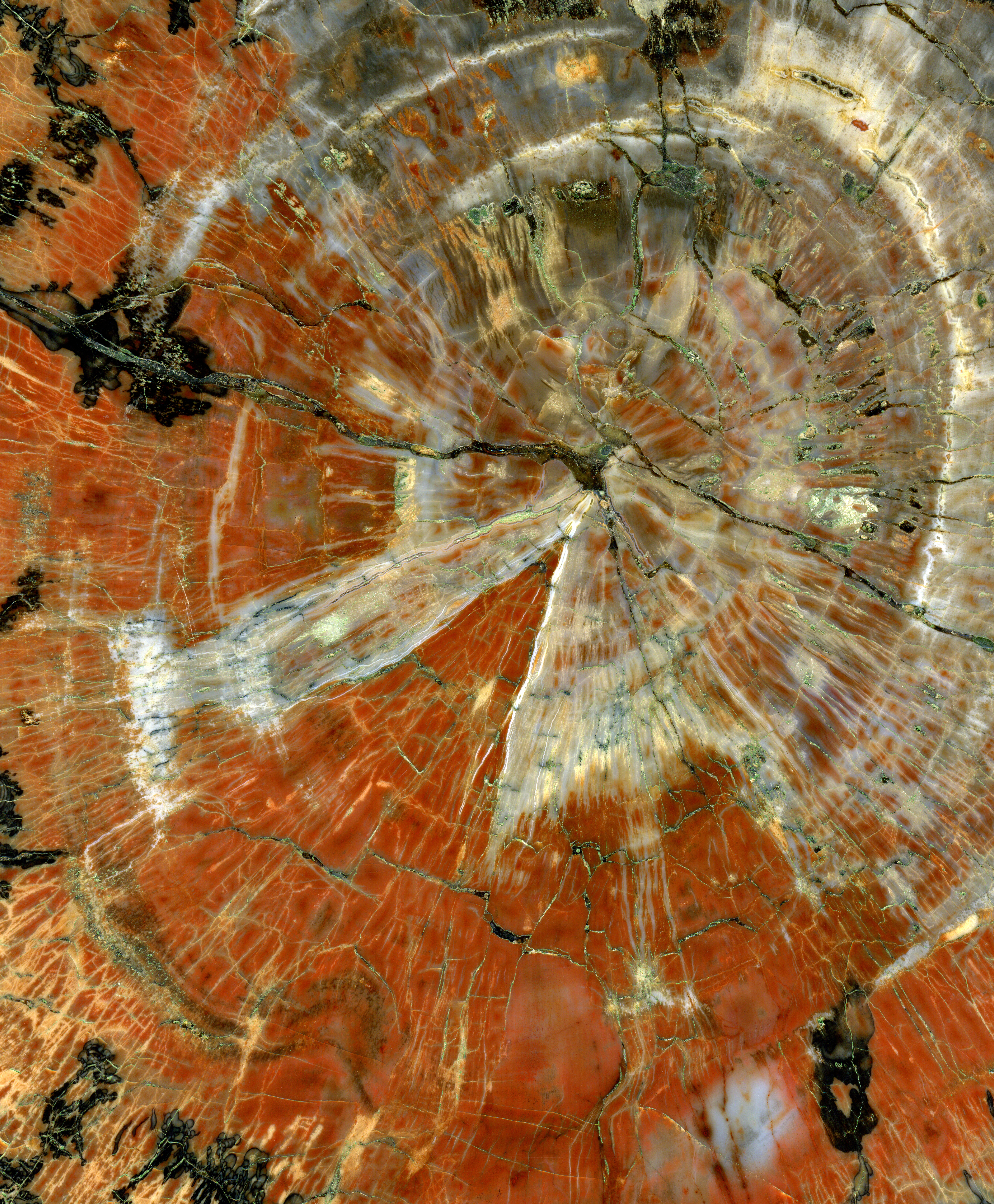 The image shows the middle of a polished slice of a petrified tree from Arizona. After the enlargement of the image it is possible to see the homesteads and the remains of living things deep in the tree. They lived approximately 230 million years ago in the late Triassic.